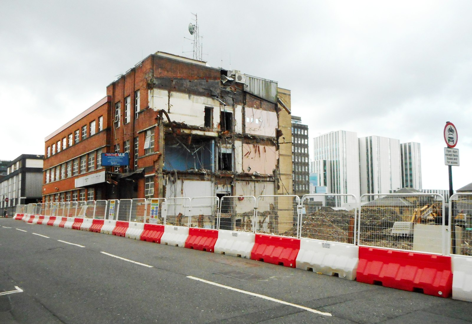 Demolition under way